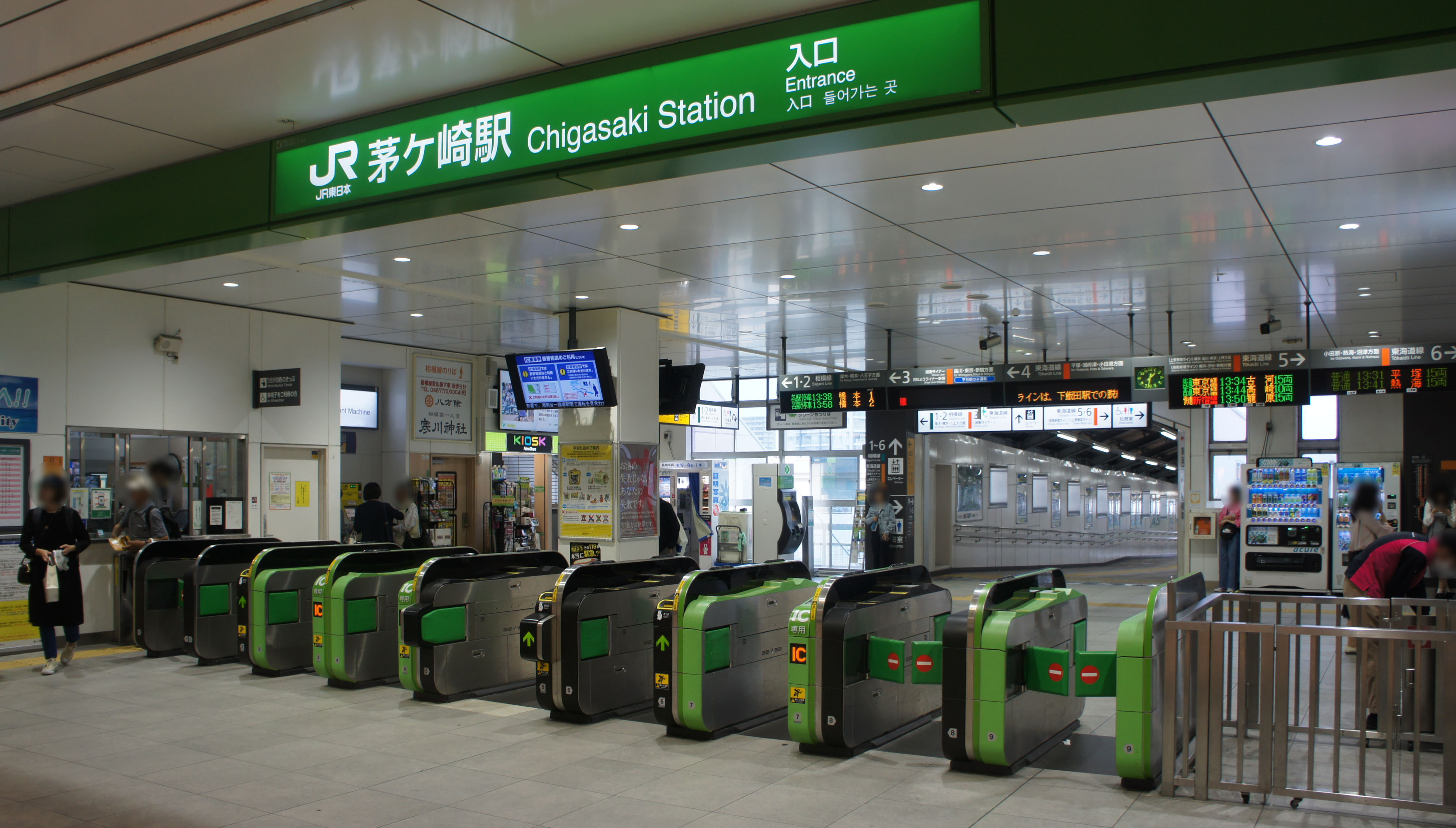 Gates of JR Tokaido-Main-Line/Sagami-Line Chigasaki Station